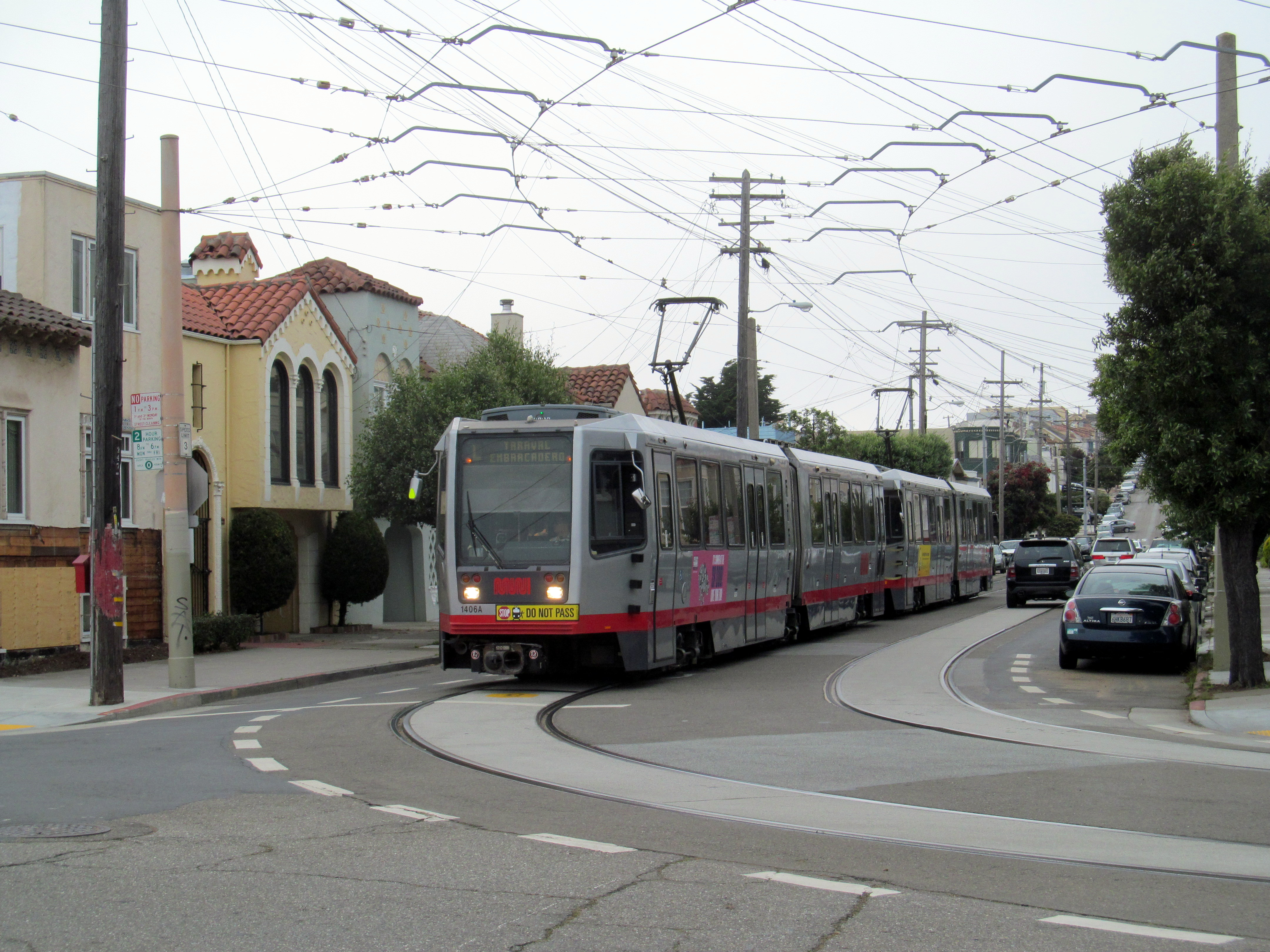 Inbound L Taraval train on 15th Avenue turning onto Ulloa Street in June 2017. A stop at that location was closed on February 25, 2017.